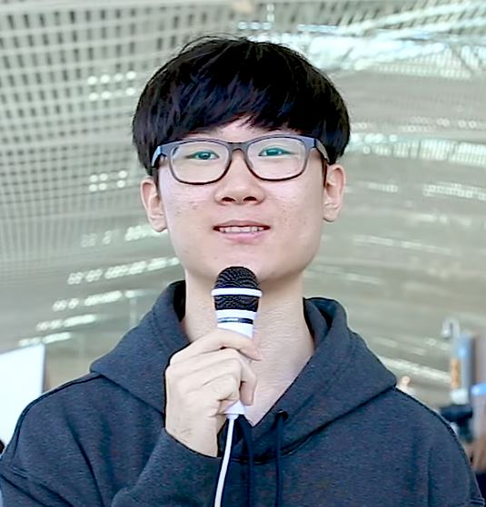 League of Legends pro "Effort" in 2019